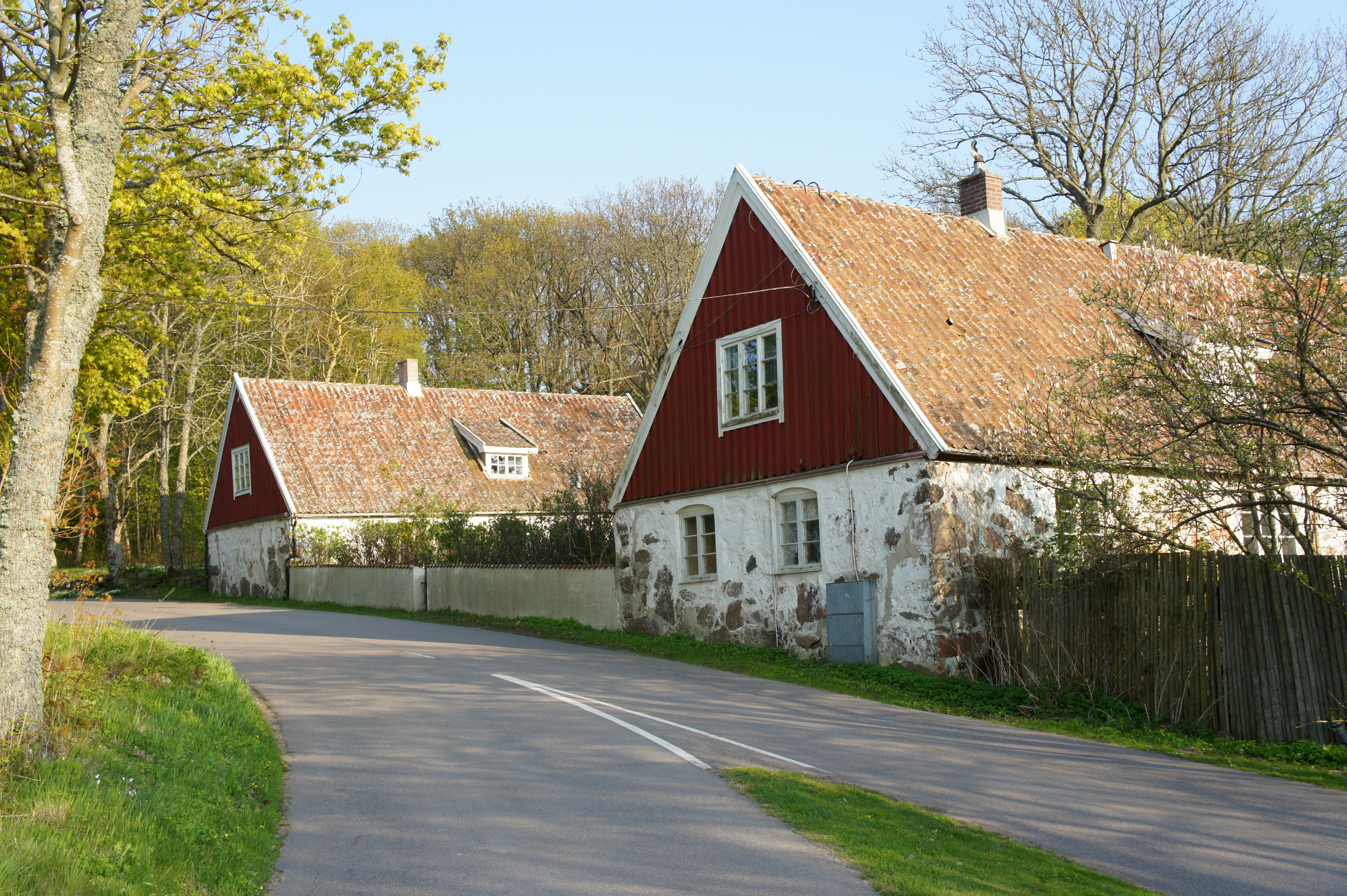 The old "Kullagården", today called "Ransgården" at Kullaberg, Höganäs municipality, Sweden